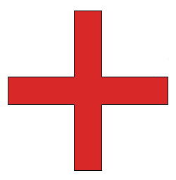 Symbol of Order of St. George of Alfama